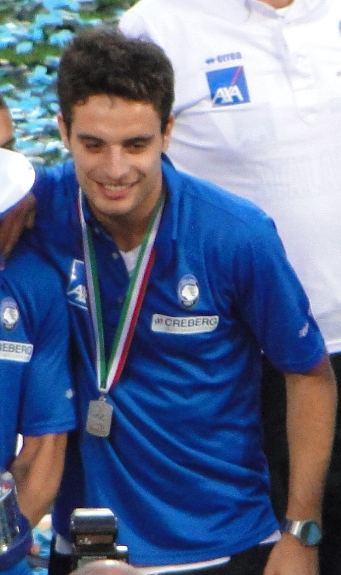 Giacomo Bonaventura, italian football player